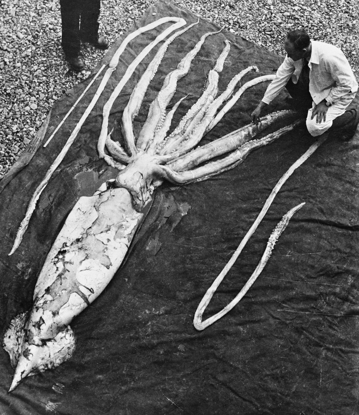 A giant squid found at Ranheim in Trondheim 2 October 1954 is being measured by the Professors Erling Sivertsen and Svein Haftorn. The specimen was measured to a total length of 9.2 meters. If used, please credit: Photo: NTNU Museum of Natural history and Archeaology